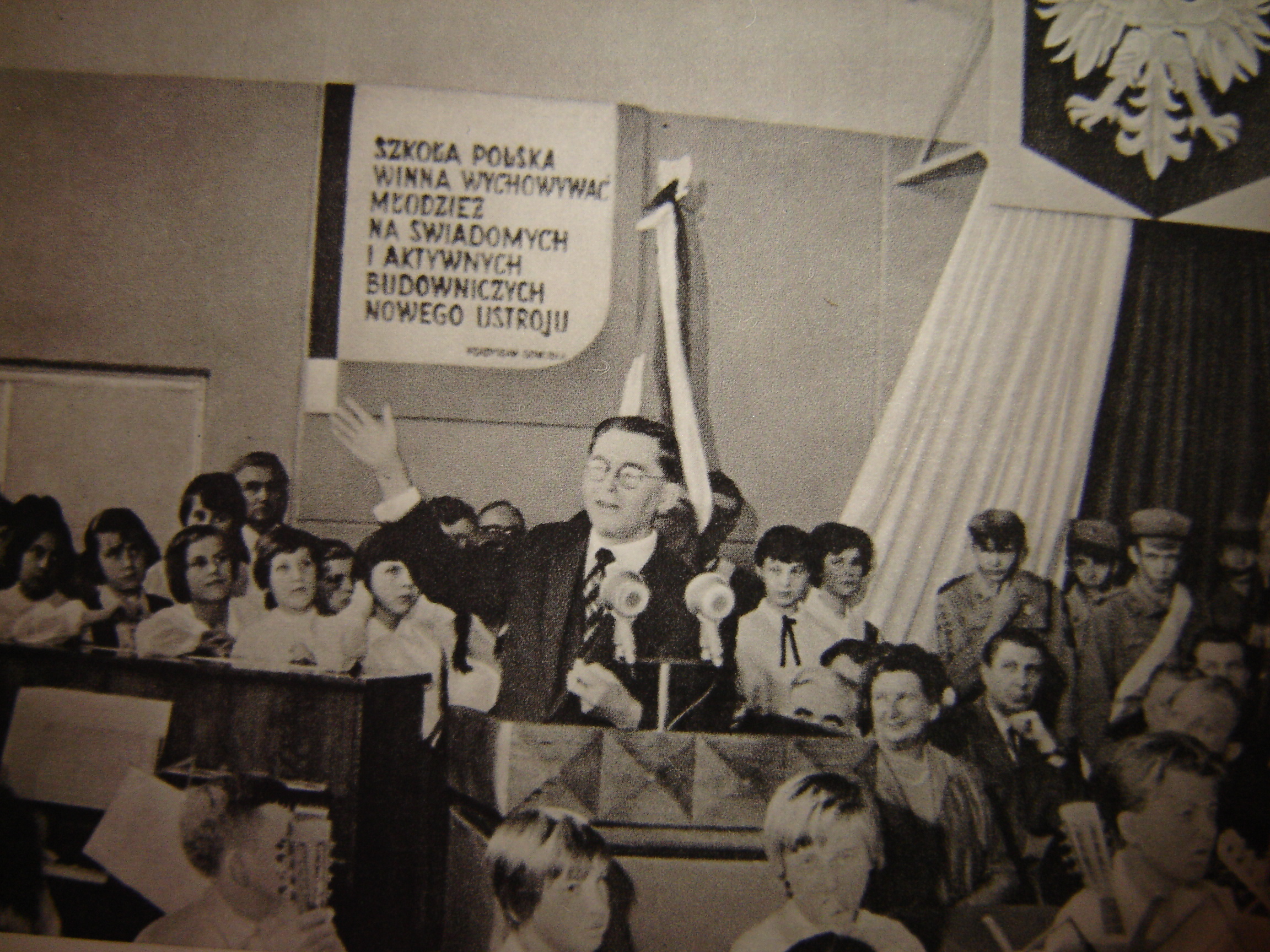 A new school is opened in Poland, probably in the early 1960s.